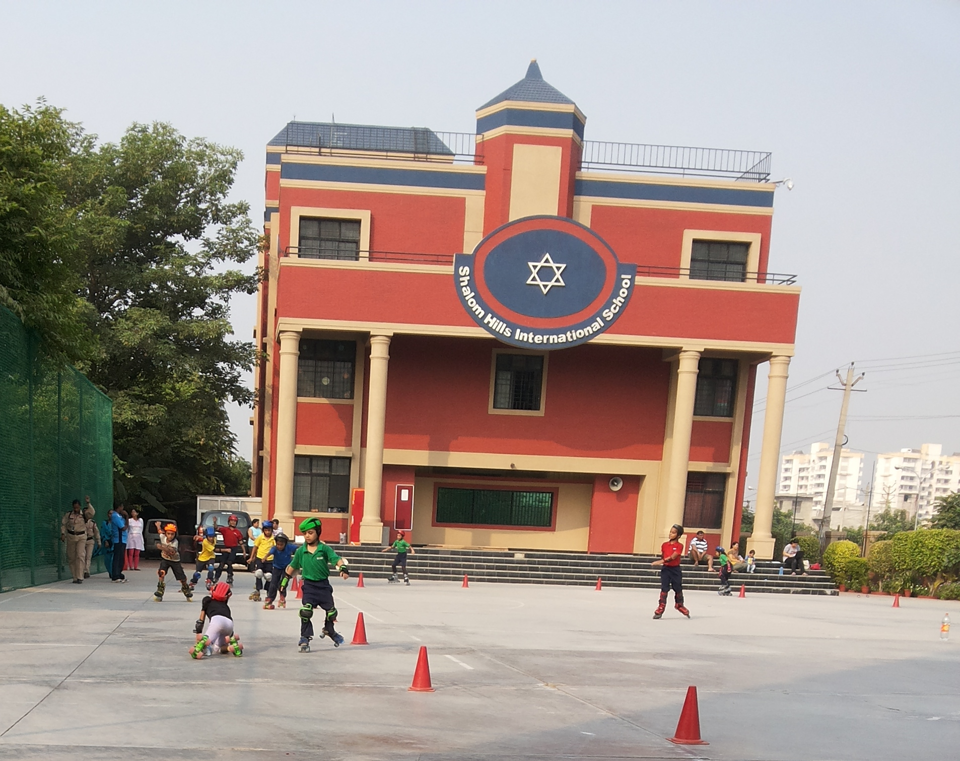 SHIS -Students, Skating Session